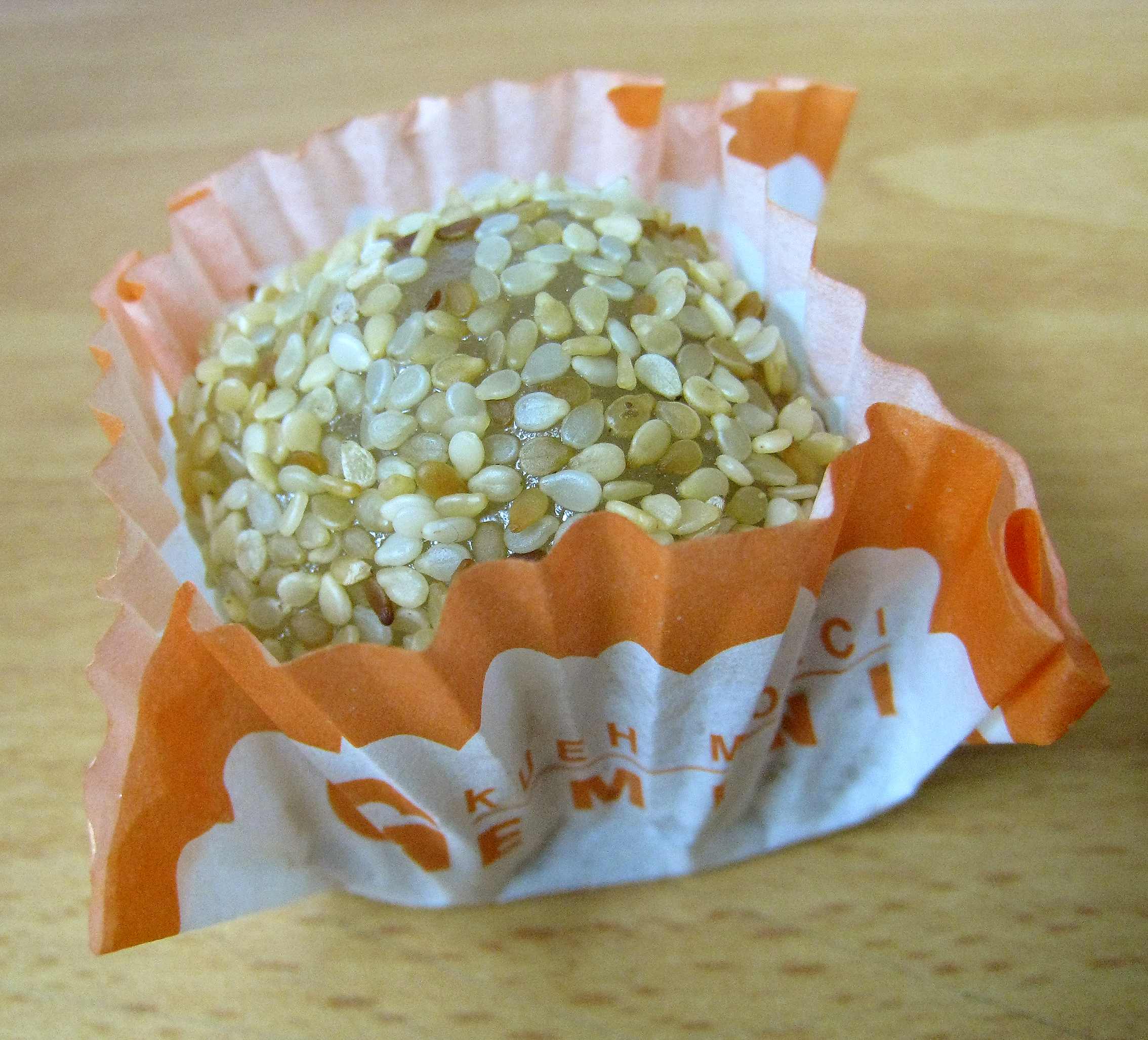 Peanut filled mochi in Indonesia, a rice flour-based cake filled with sweet bean paste, sprinkled by sesame seeds.